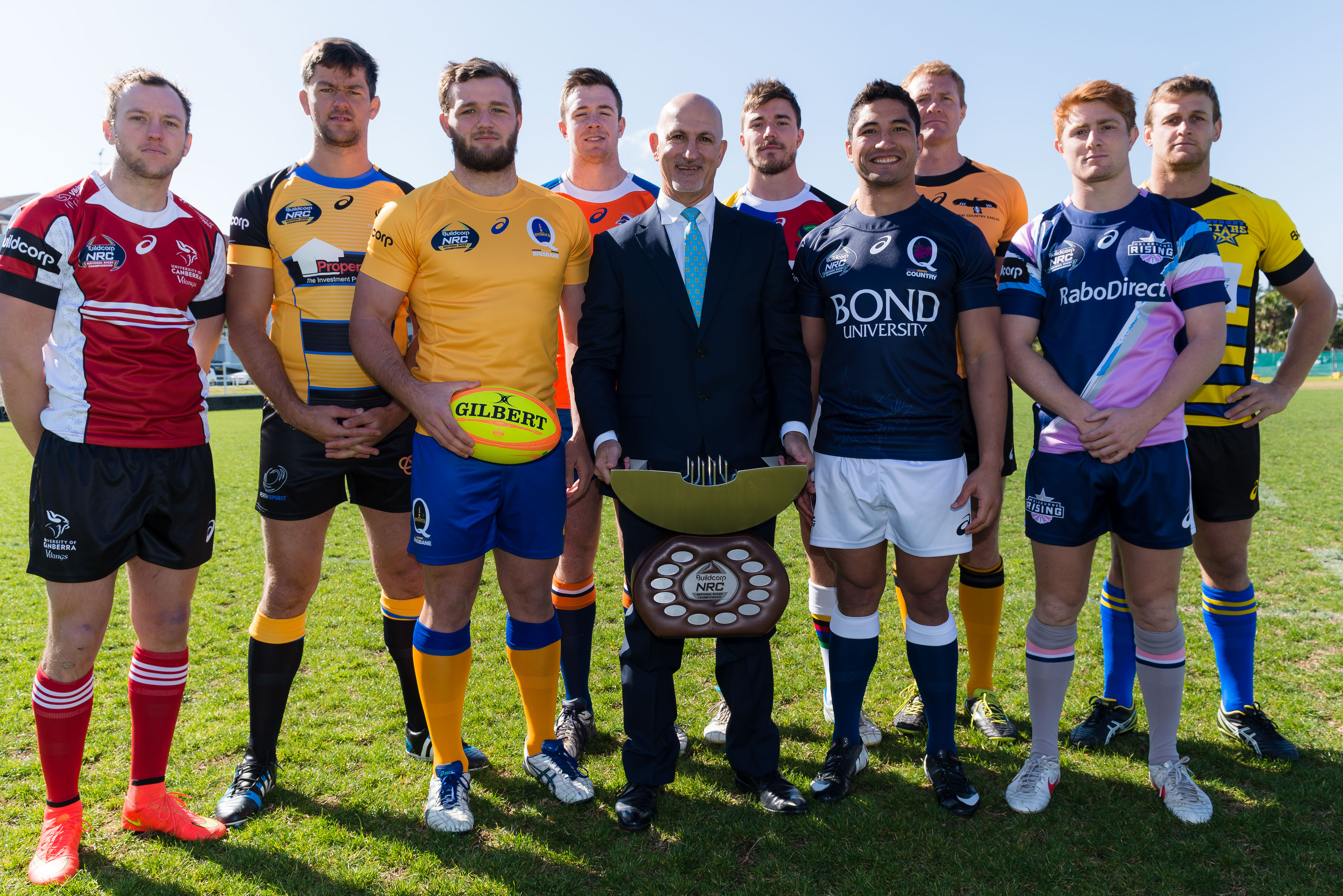 Buildcorp NRC Competition Launch with Buildcorp MD Tony Sukkar and team captains.